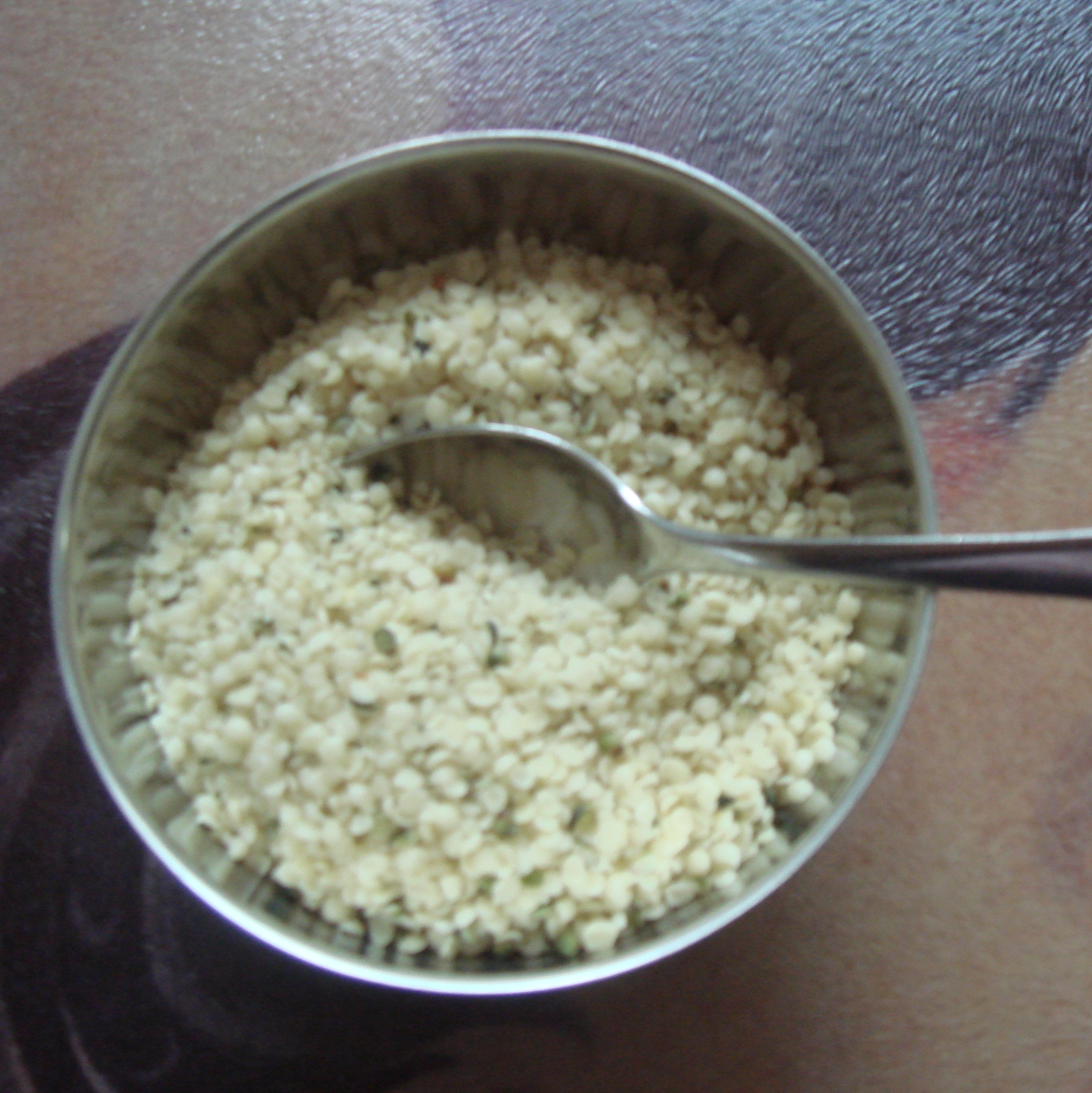 Gillian McKeith's organic shelled hemp seeds in a small bowl with teaspoon.